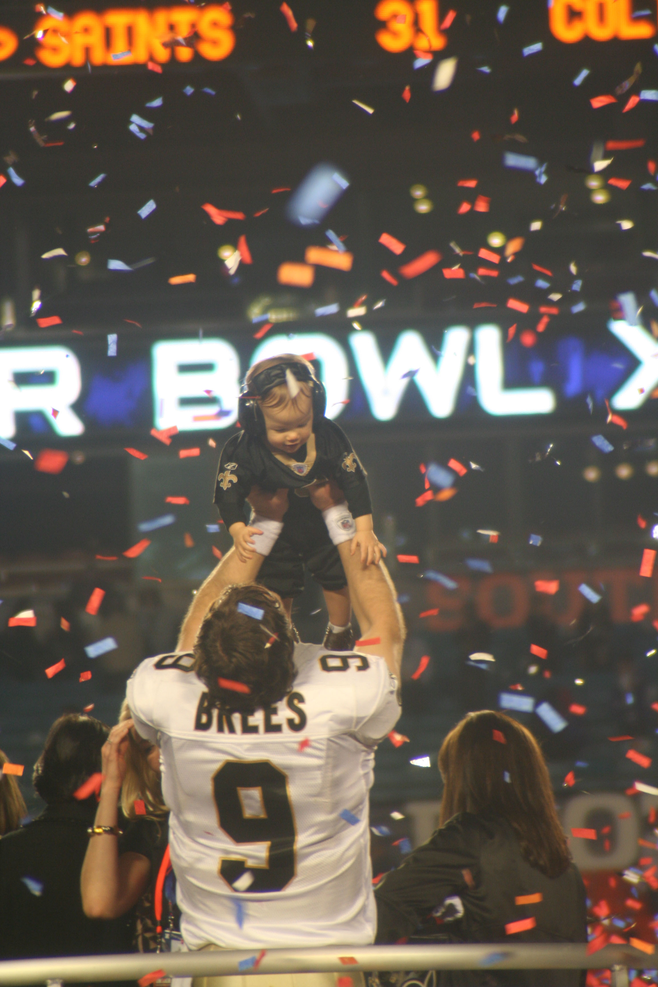 Brees on podium with his son